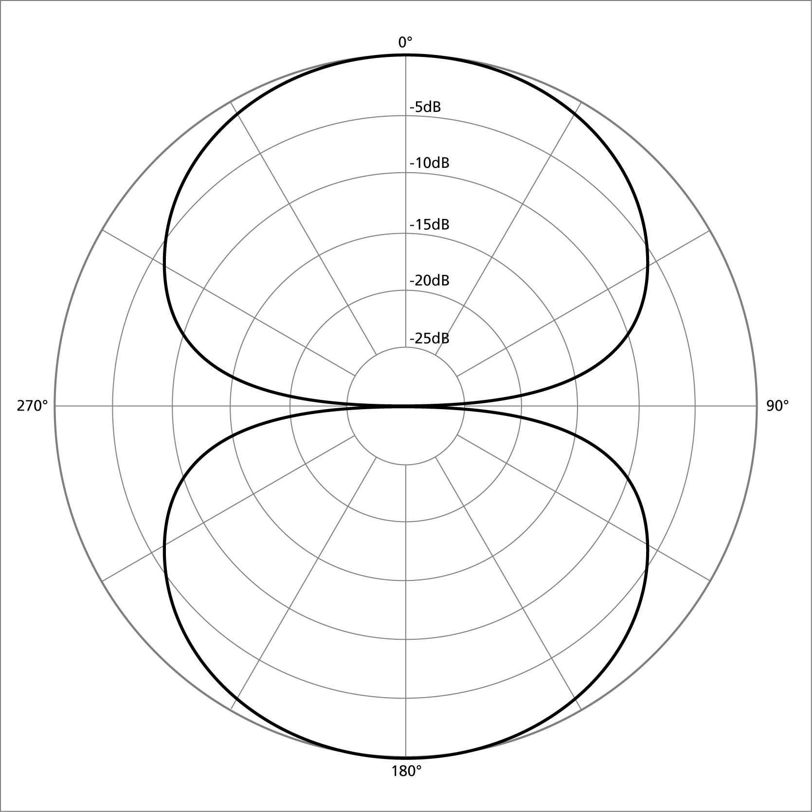 logarithmic polar pattern of figure eight characteristics